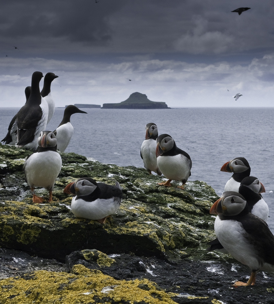 Atlantic Puffin and Common Murre (also known as Common Guillemot) on Lunga, Treshnish Isles, Scotland, United Kinkdom. In the background: Dutchman's Cap.